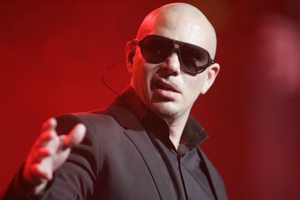 Pitbull at the Planet Pit World Tour in Sydney, Australia In 2012.